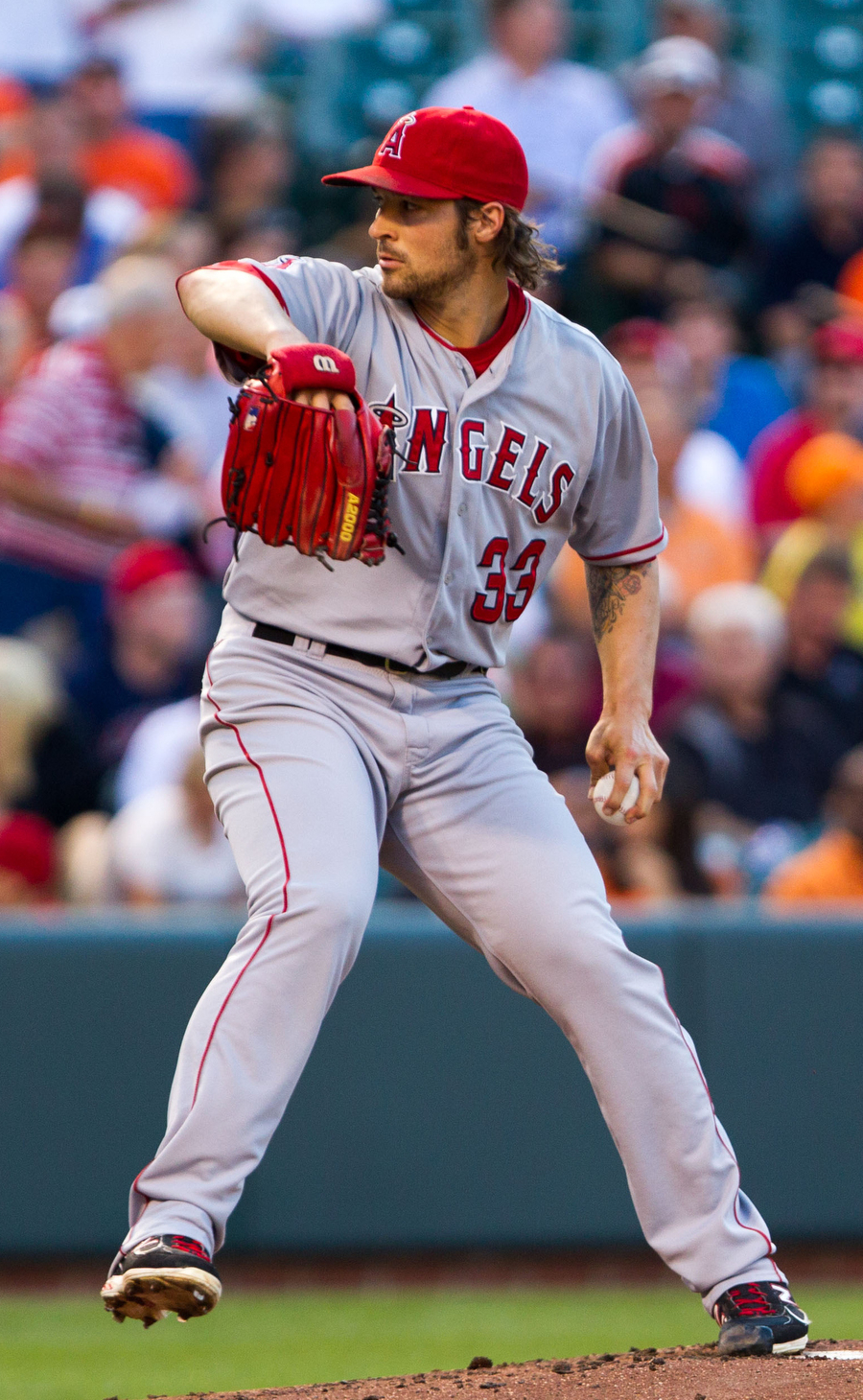 C. J. Wilson